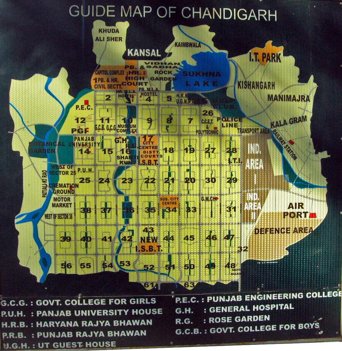 Map of Chandigarh, the planned city.